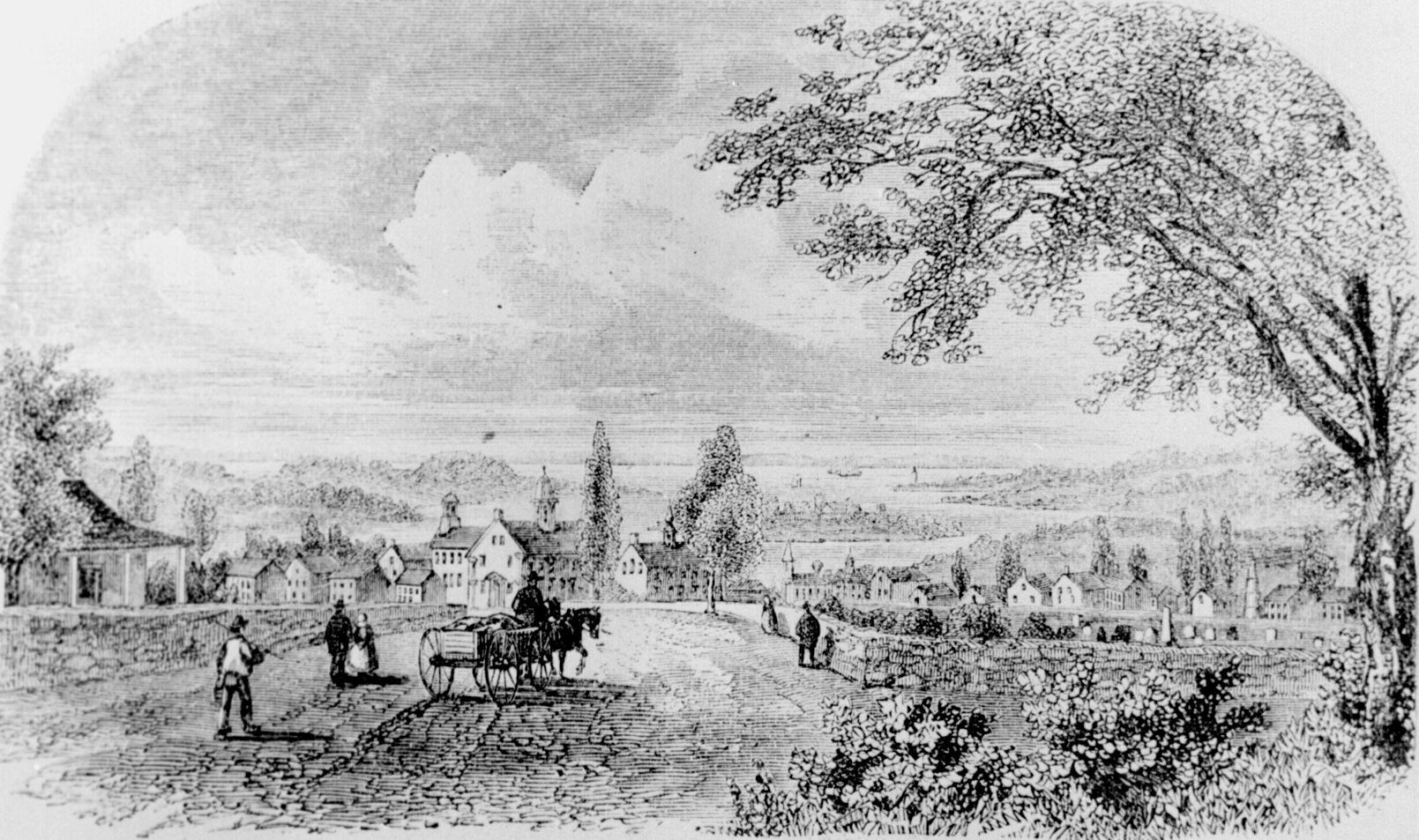 "New London [Connecticut] in 1813."